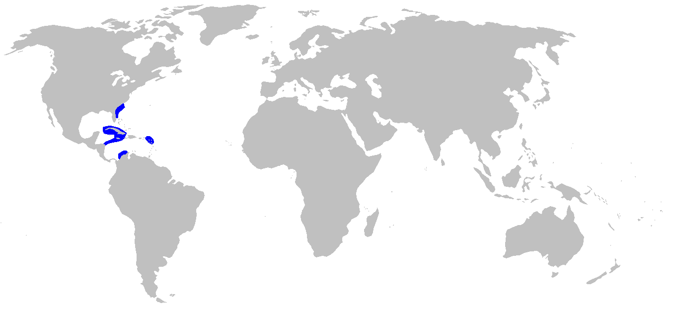 Distribution map for Etmopterus bullisi